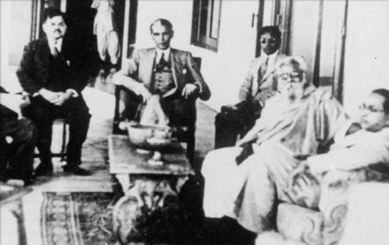 Muhammad Ali Jinnah, Periyar E.V. Ramaswamy and Dr. B. R. Ambedkar on 06-Jan-1940 at Jinnah's residence in Bombay.